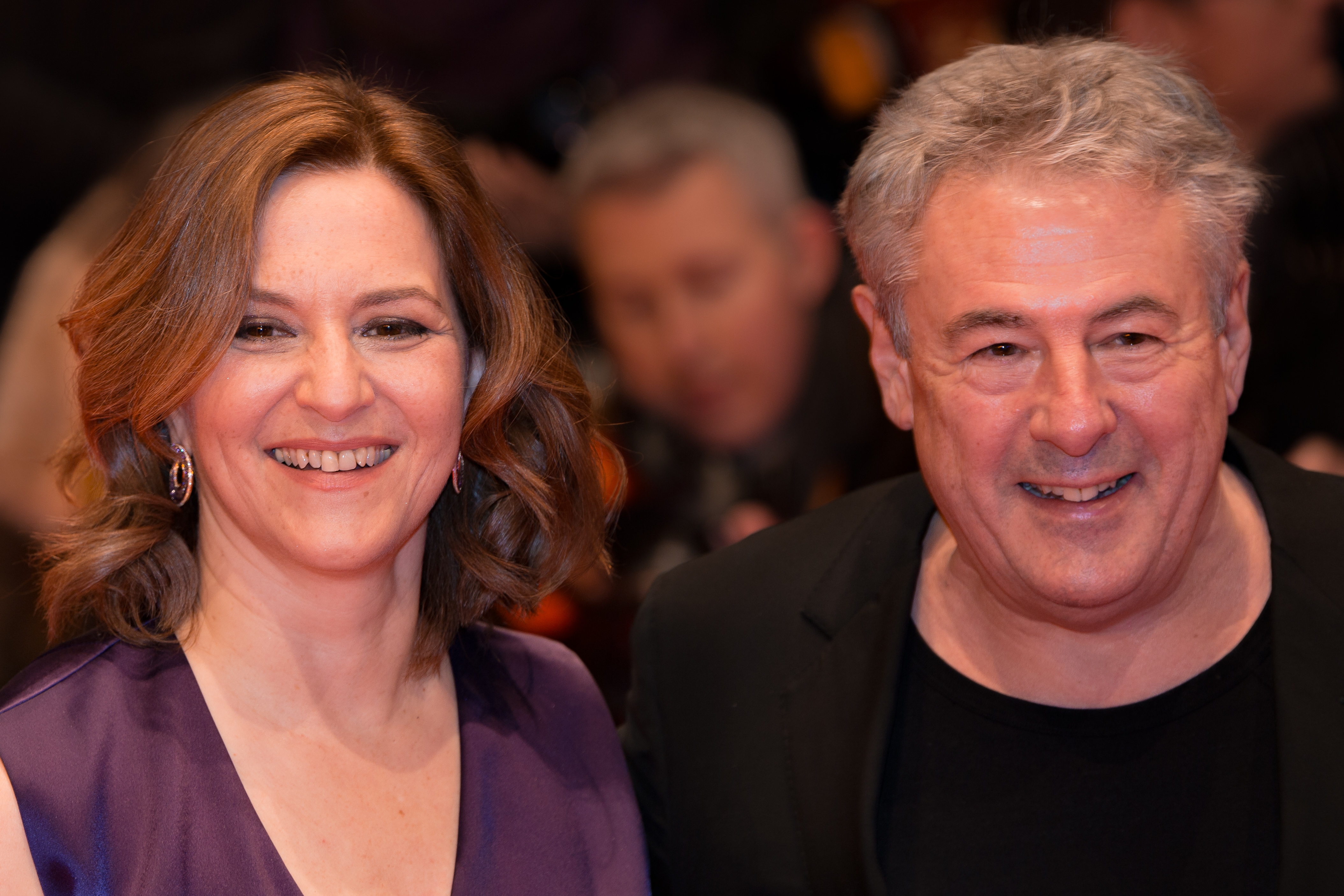 Martina Gedeck and her partner Markus Imboden on the red carpet of the Berlinale 2017 opening film